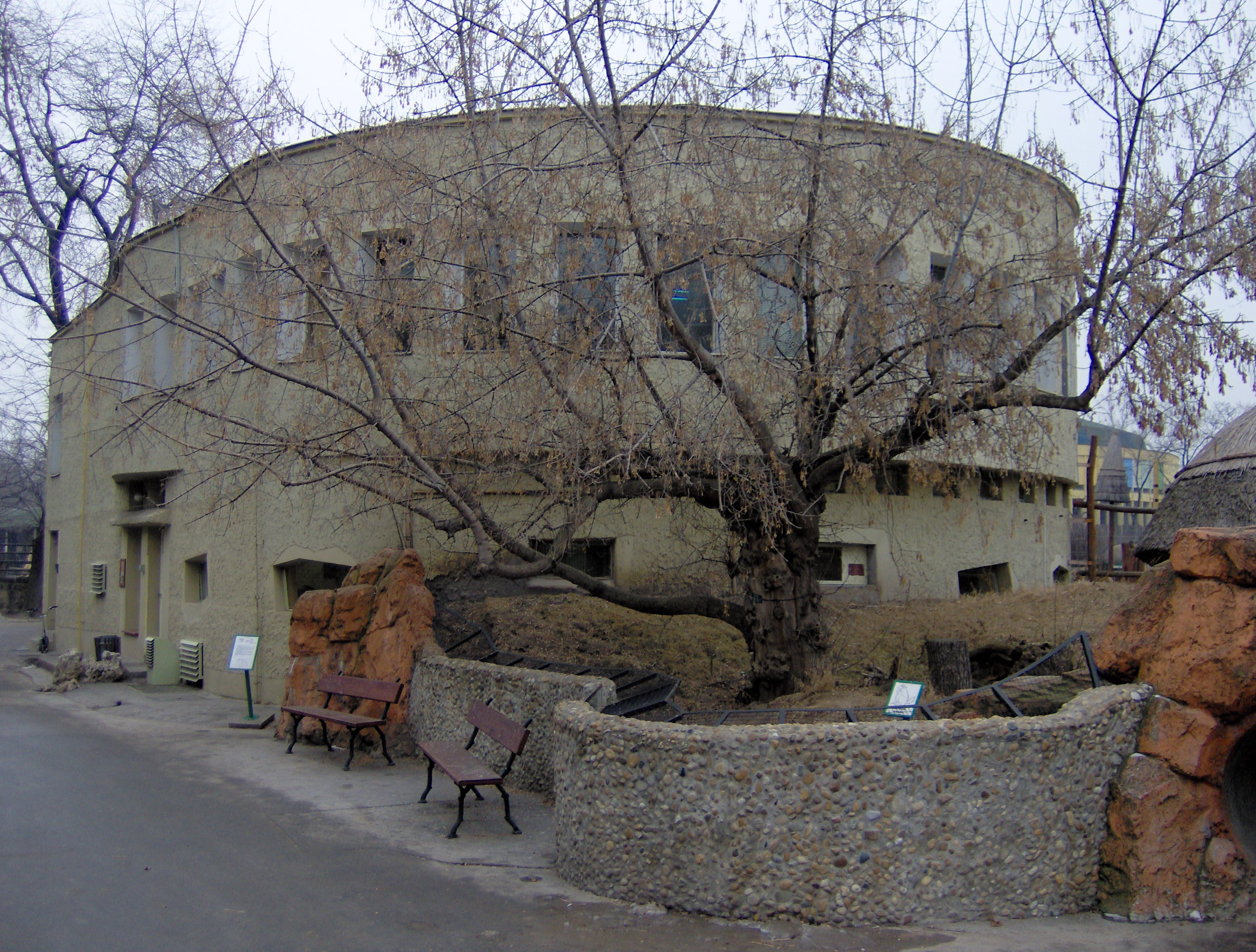 The former Giraffe House at the Budapest Zoo